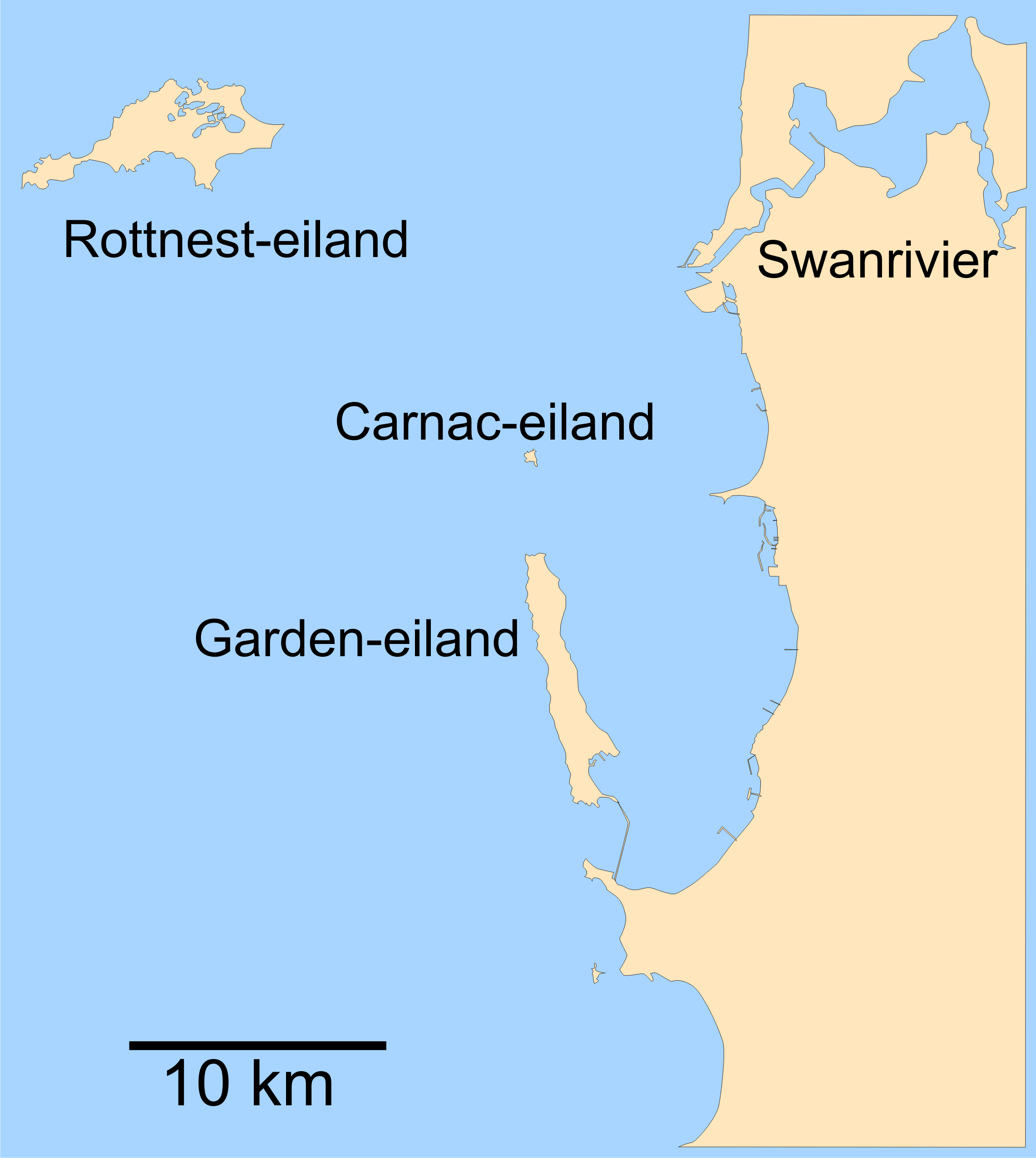 SVG conversion is not rendering image correctly in Coreldraw